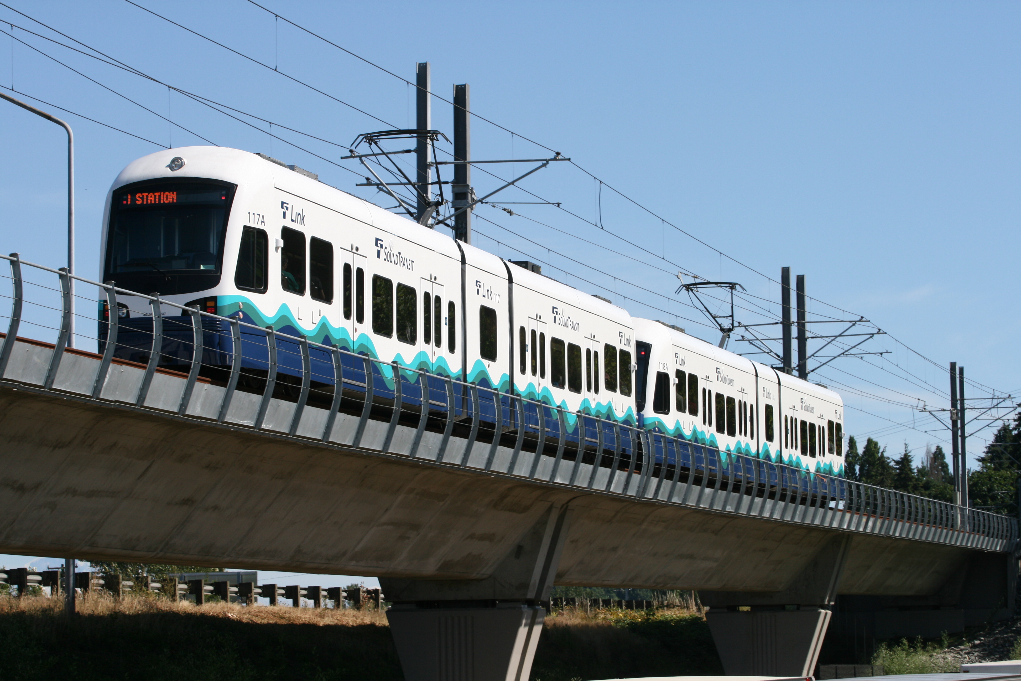 Two-car train to Tukwila